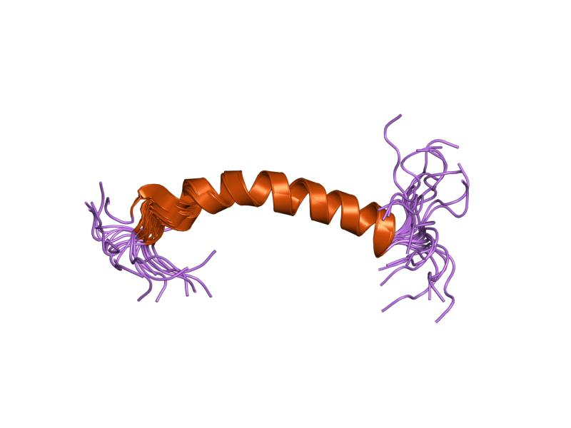 Cartoon representation of the molecular structure of protein registered with 1rkl code.